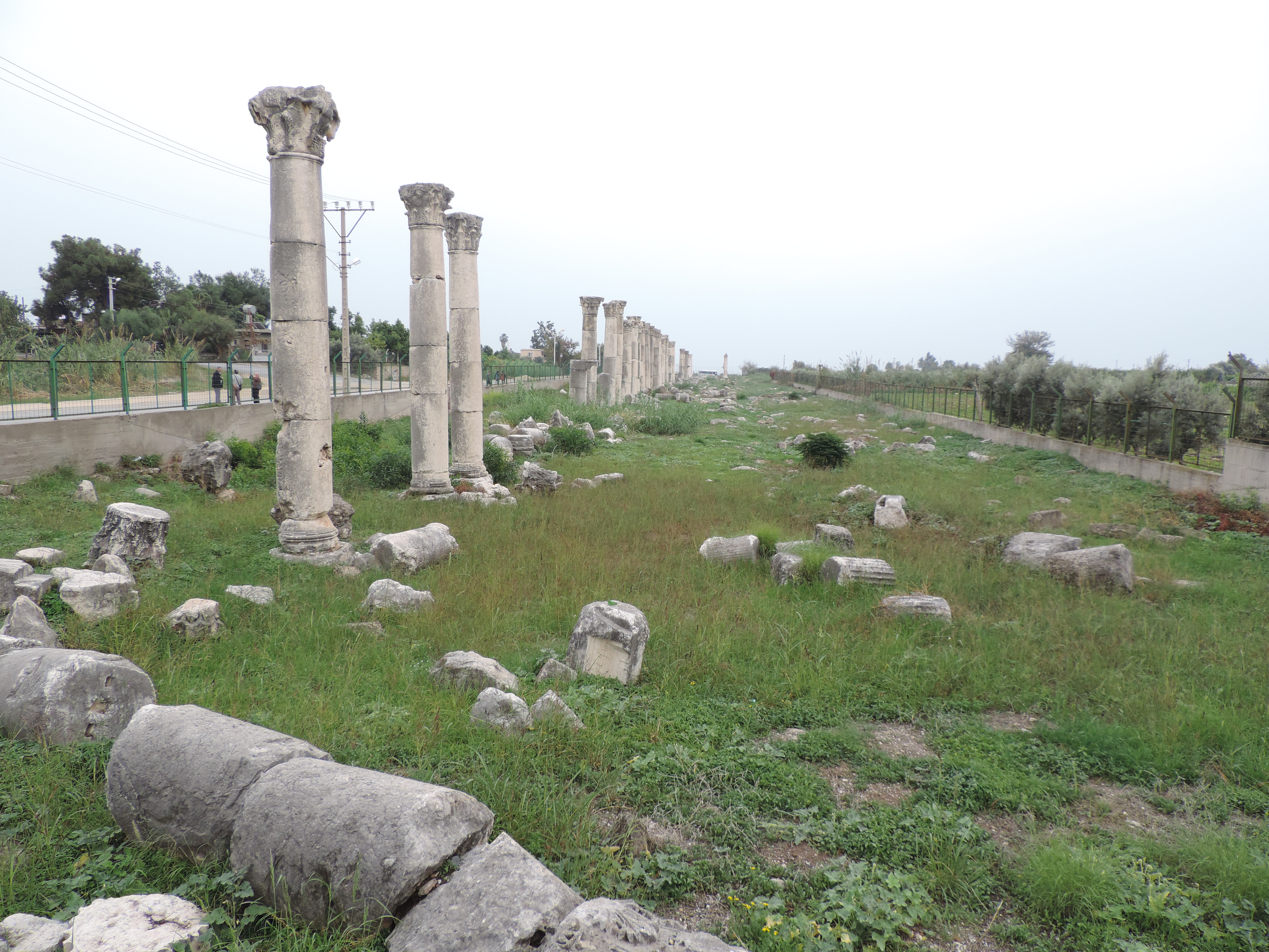 Remains from the ancient town Soli / Pompeiopolis, Cilicia, nowadays near Mersin, Turkey.